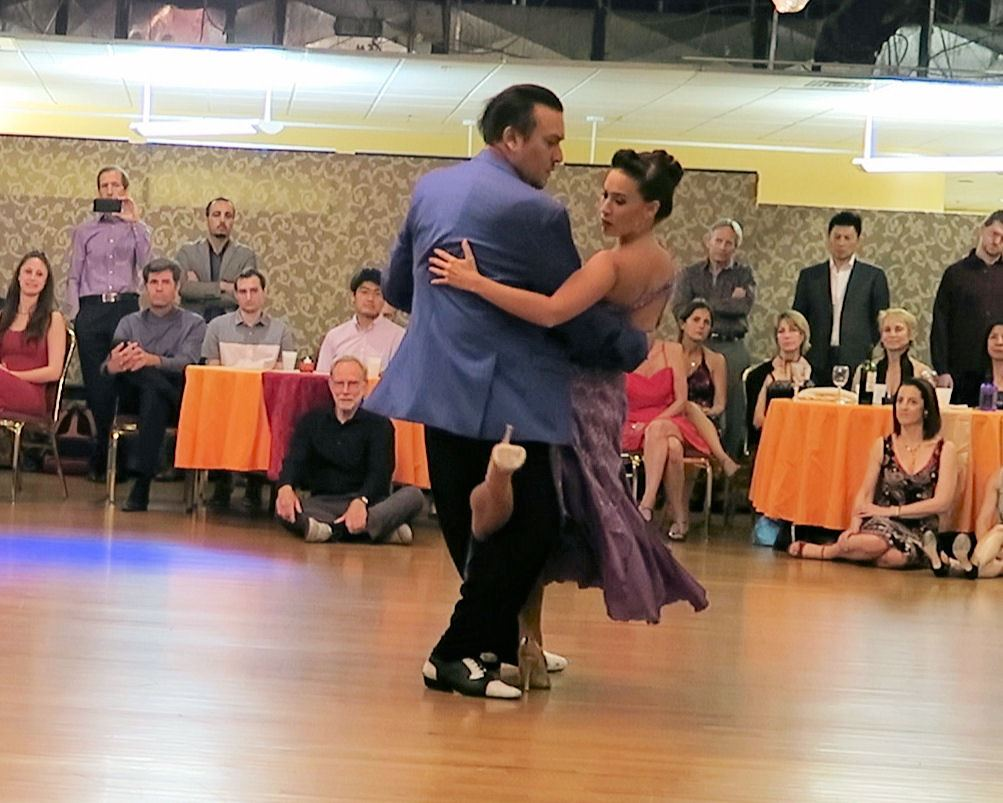 Mariano ‘Chicho’ Frúmboli and Juana Sepúlveda shown in performance at the Boulder Tango Festival (2016). Chicho and Juana are widely considered to be among the most innovative contemporary dancers of Argentine Tango. In this image Juana is performing a tango step known as a "gancho".